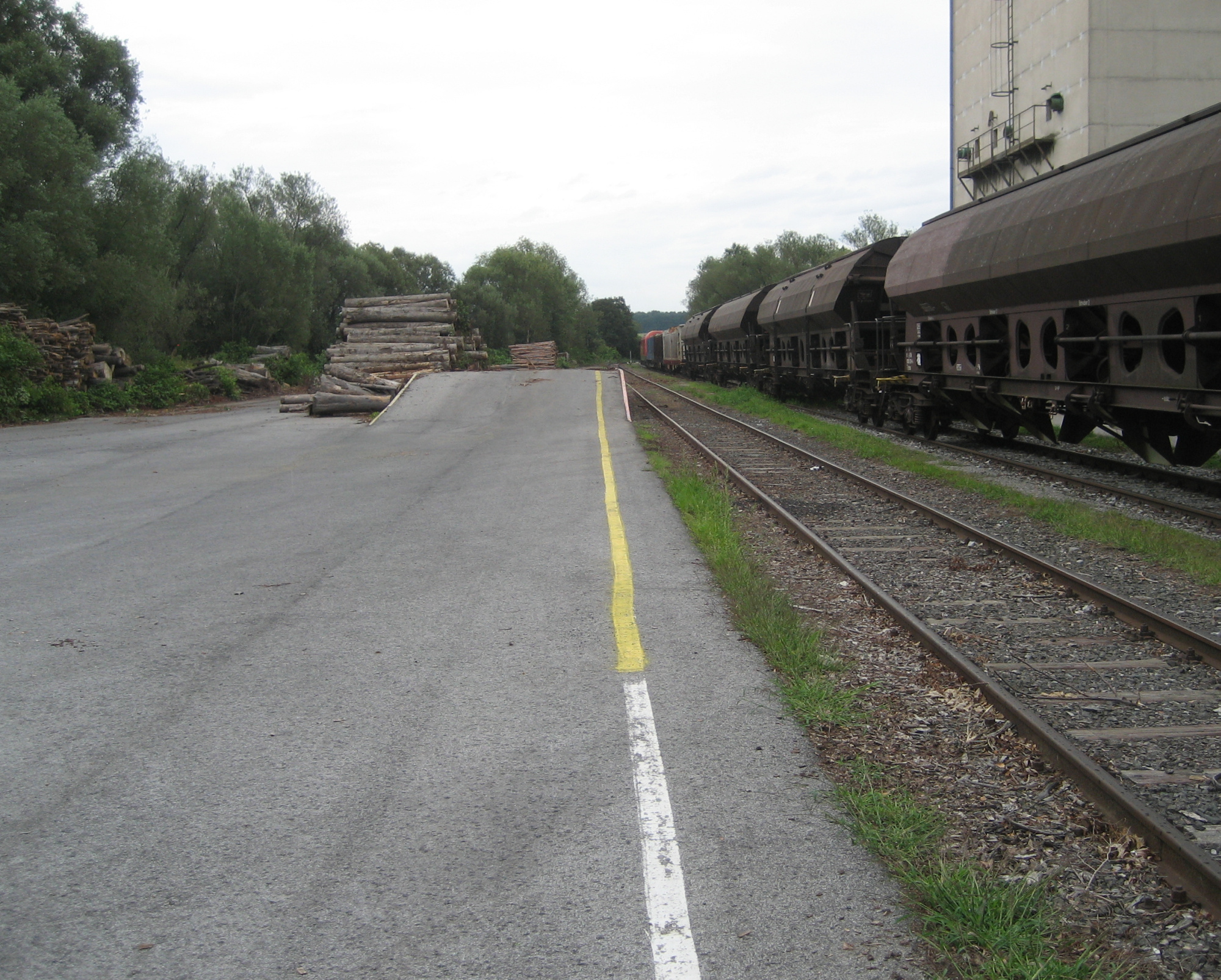 Oberloisdorf train station in Burgenland, Austria